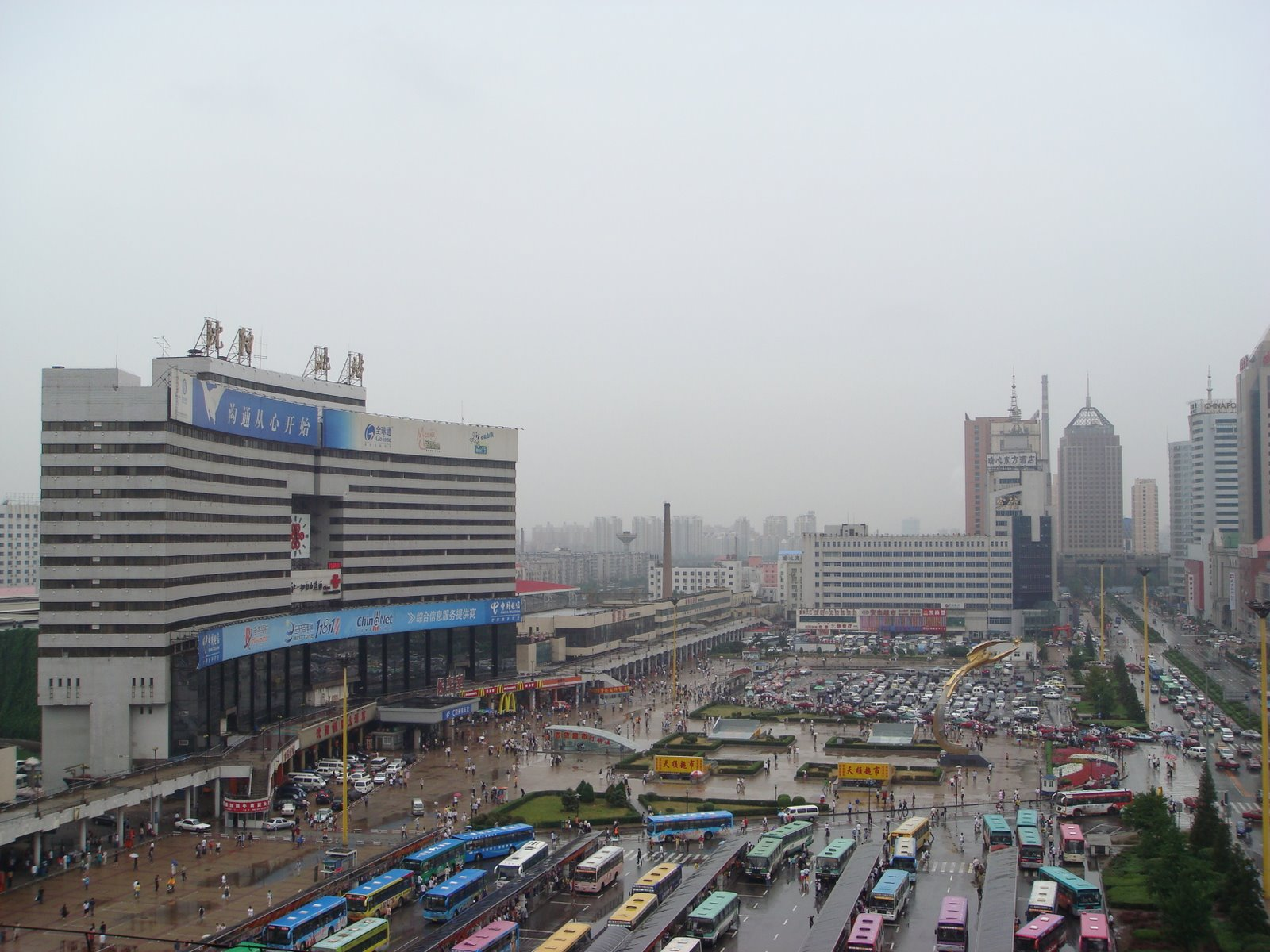 Shenyang North Railway Station